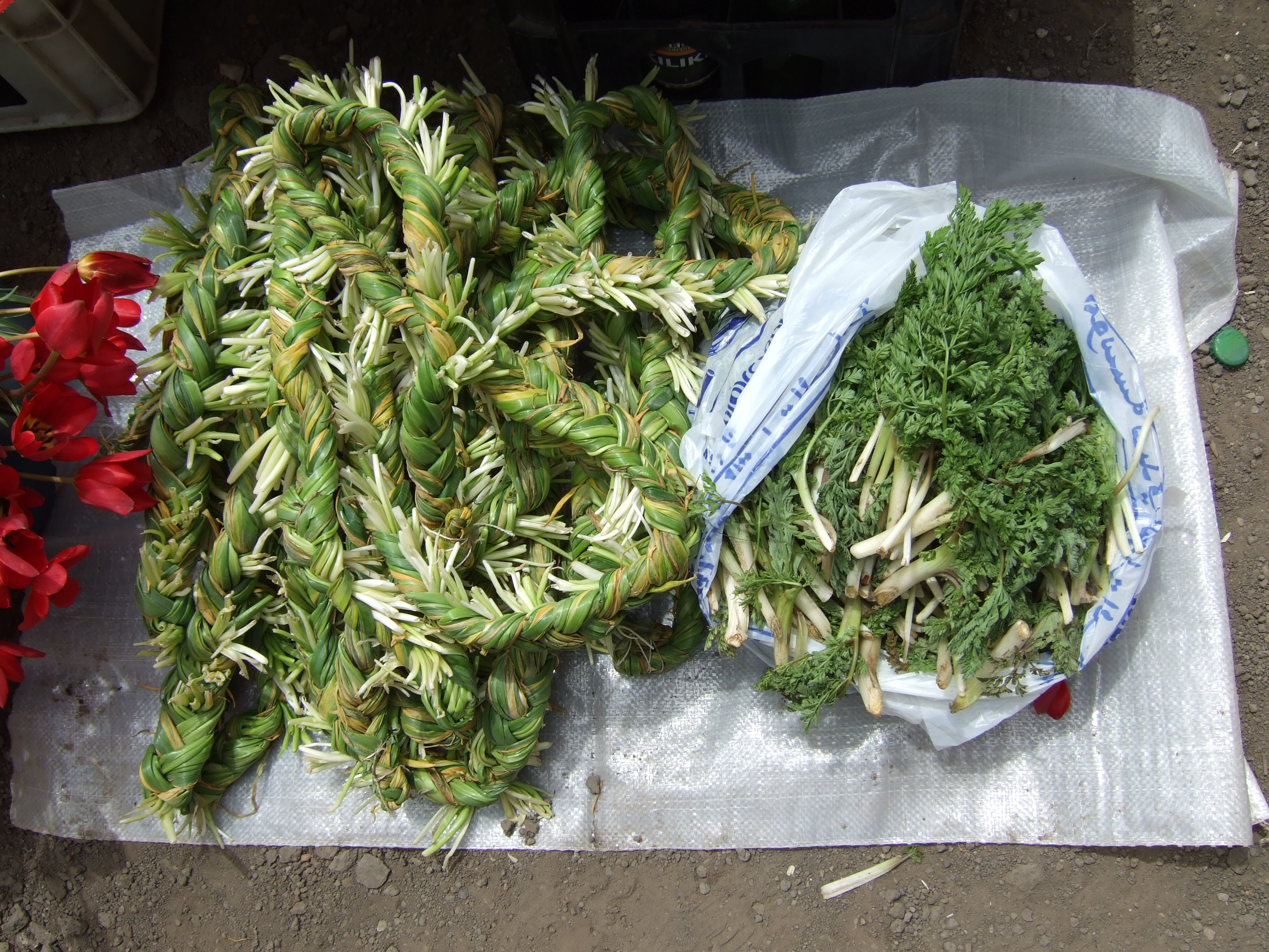 Wild mountain sorrel (aveluk, on the left) and another herb being sold on Mount Ara to the pilgrims of Tsaghkevank 40 days after Resurrection Day. Sorrel is usually braided in this fashion in Armenia and Artsakh allowing it the option of being dried for extended use.